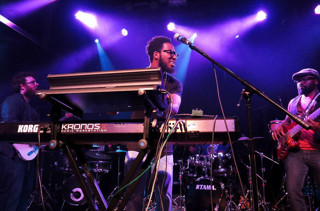 Cory Henry at Terminal West, Atlanta